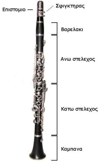 Clarinet parts. Greek version of Image:Clarinet_construction.JPG